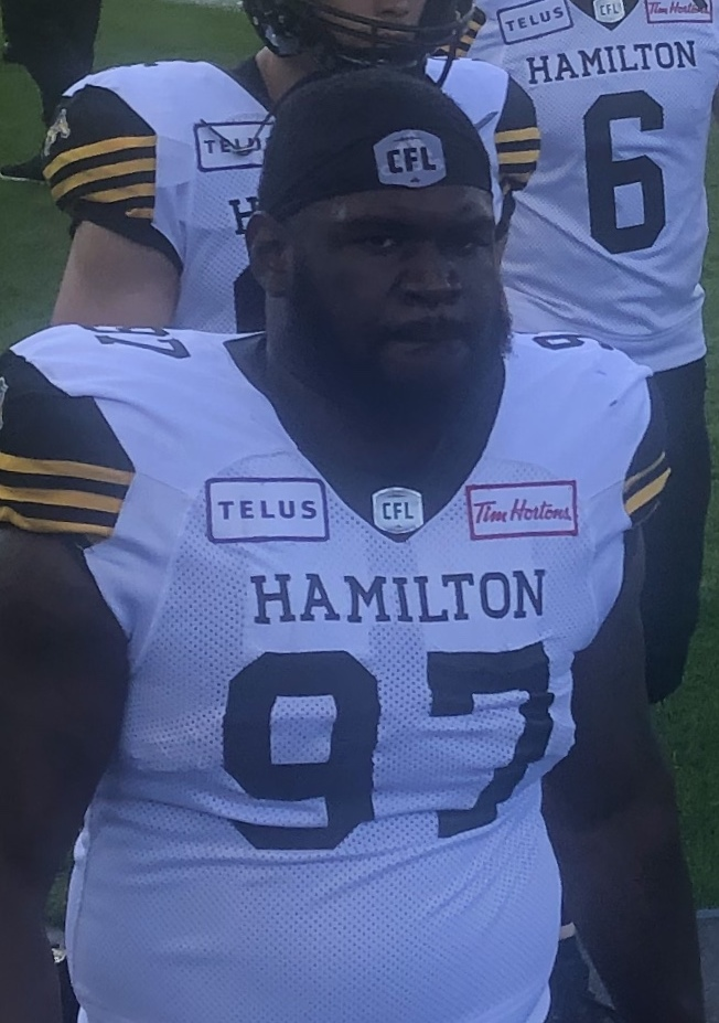 Ted Laurent, defensive lineman for the Hamilton Tiger-Cats.